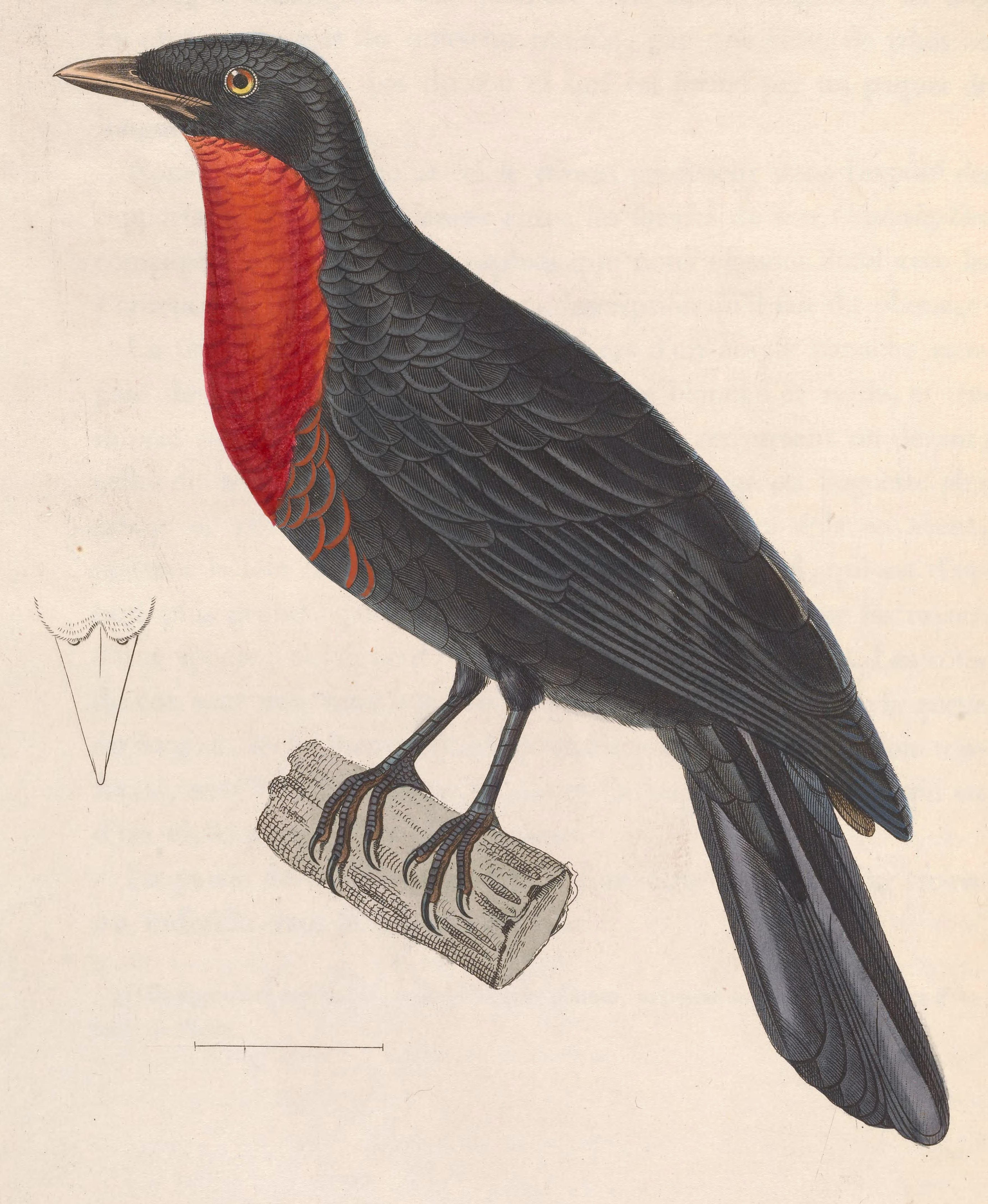 « Coracina scutata » = Pyroderus scutatus (Red-ruffed Fruitcrow) - adult